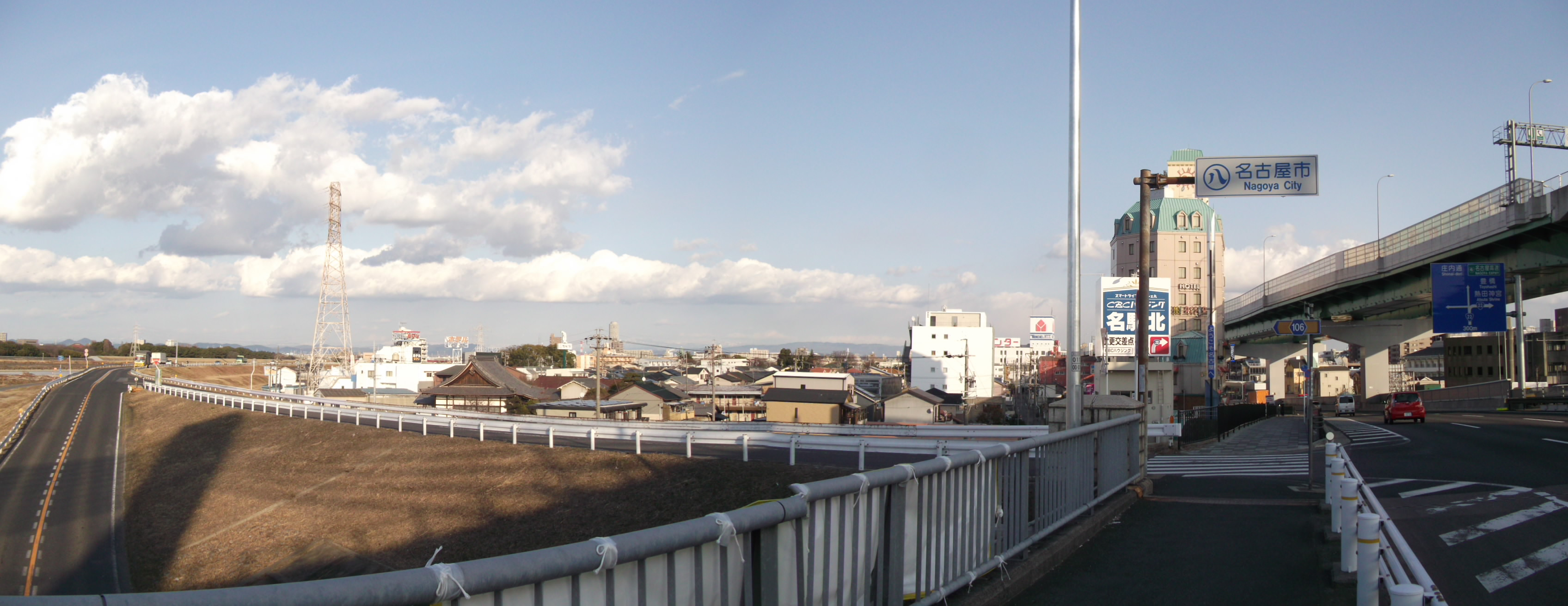 Starting point of the Aichi Prefectural Road Route 202 in Nishi-ku, Nagoya City